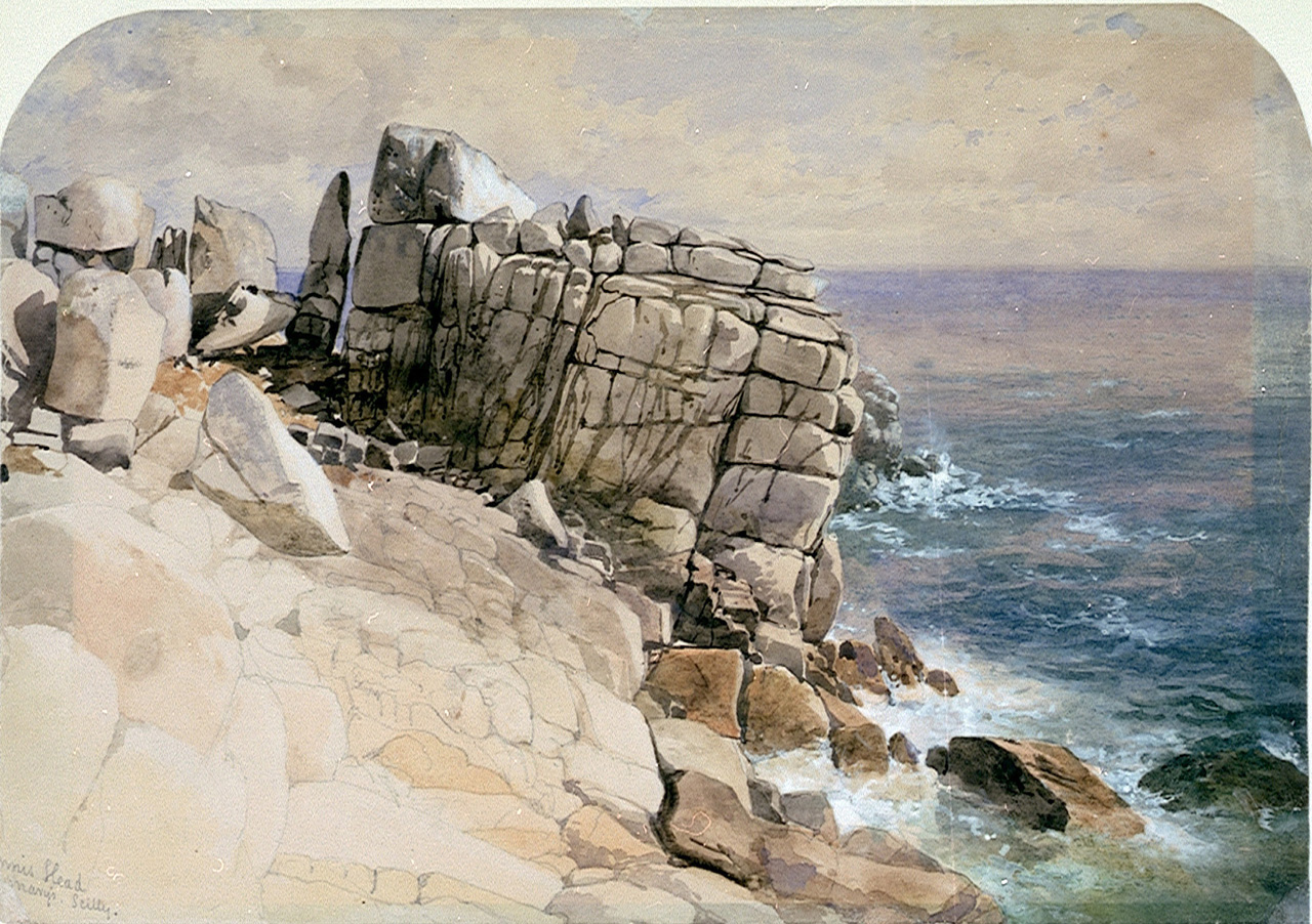 Peninnis Head, St Mary's, Isles of Scilly The son of an engraver, Cooke was a meticulous and sometimes obsessive draughtsman. At the age of eighteen, he drew and etched a series of plates of maritime subjects for 'Shipping and Craft', published in 1829. These reflect his interest in maritime subjects in which he was to specialise. His travels, in particular to Holland and Italy provided subjects for a large number of his paintings exhibited at the Royal Academy between 1835 and 1879. This drawing is evidence of Cooke's fascination with recording geological formations. Peninnis Head, St Mary's, Isles of Scilly